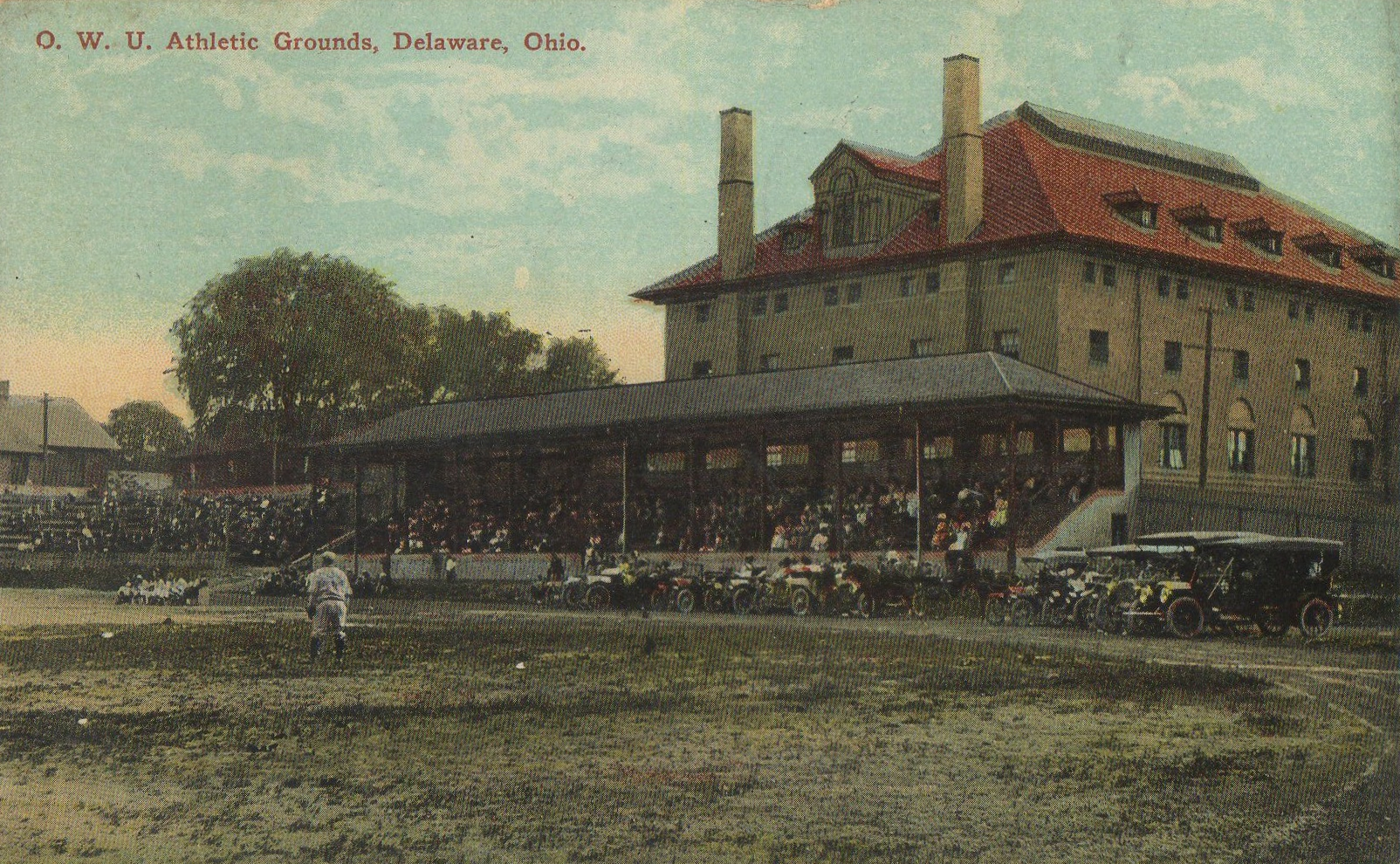 Postcard view of Edwards Field at Ohio Wesleyan University.